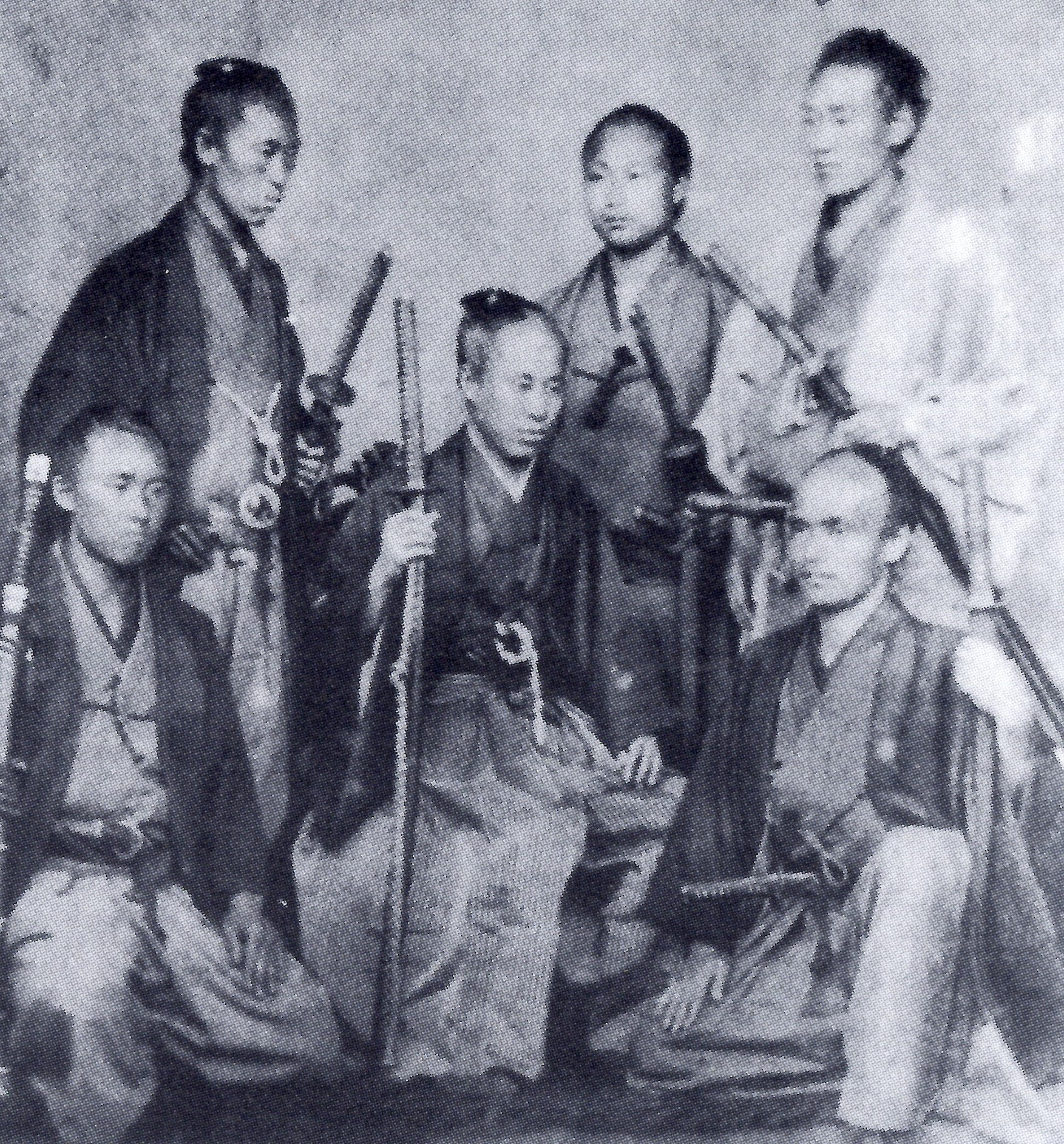 Group picture of Ai Sagara and his vassals.